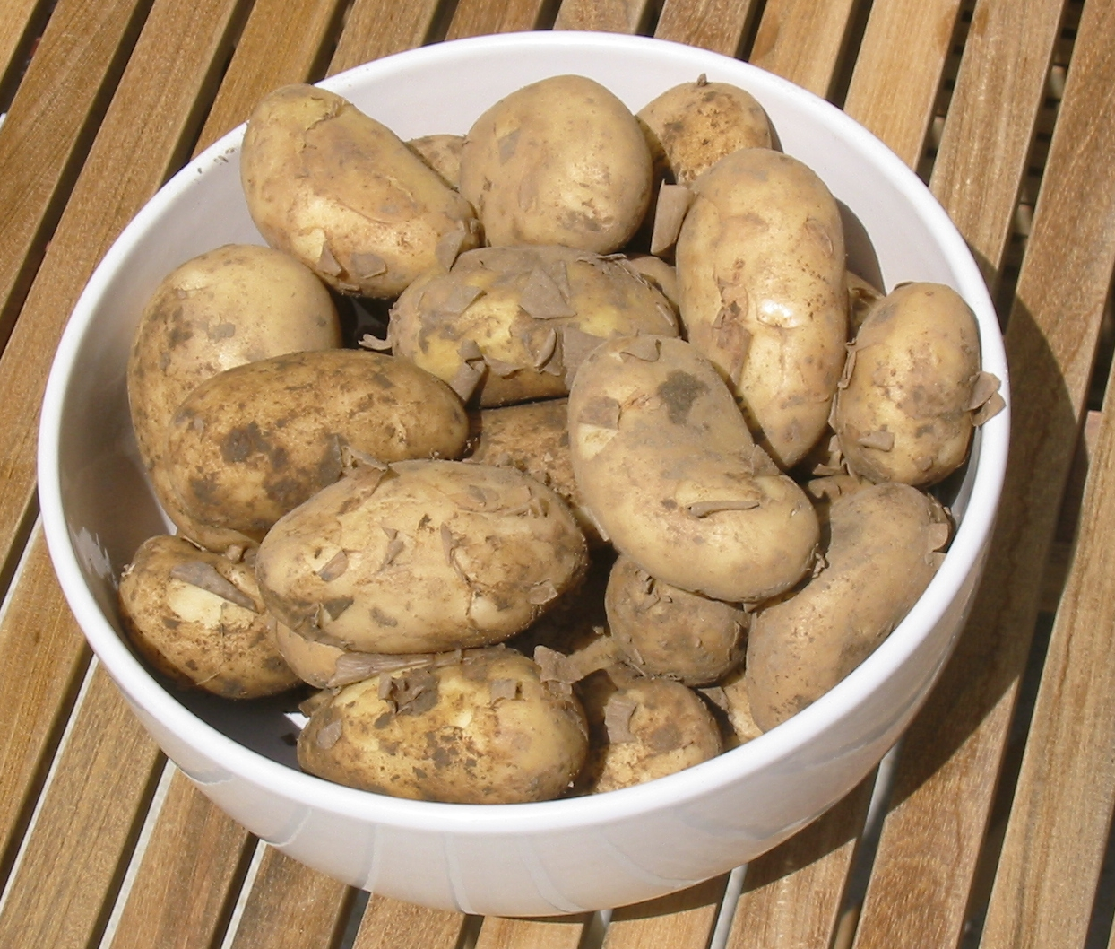 Dish of Jersey Royal potatoes - uncooked